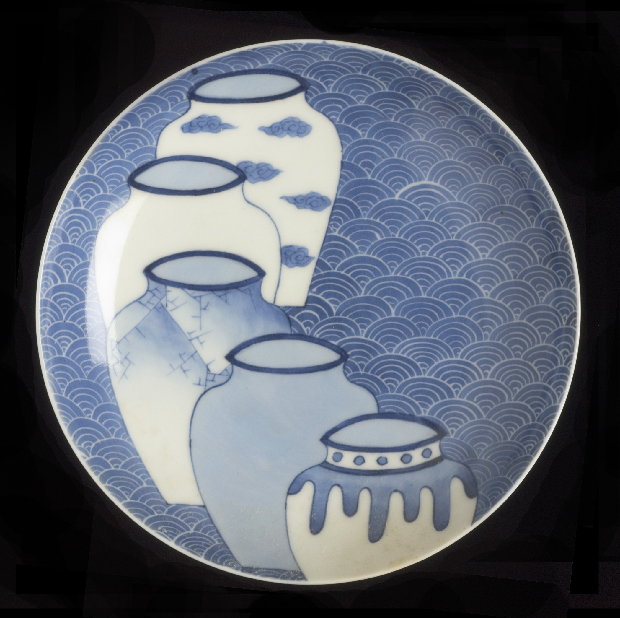 Japan, 19th century Furnishings; Serviceware Nabeshima-style ware; porcelain with underglaze blue Height: 1 1/2 in. (3.81 cm); Diameter: 6 1/8 in. (15.56 cm) Gift of Allan and Maxine Kurtzman (M.2003.154.18) Japanese Art